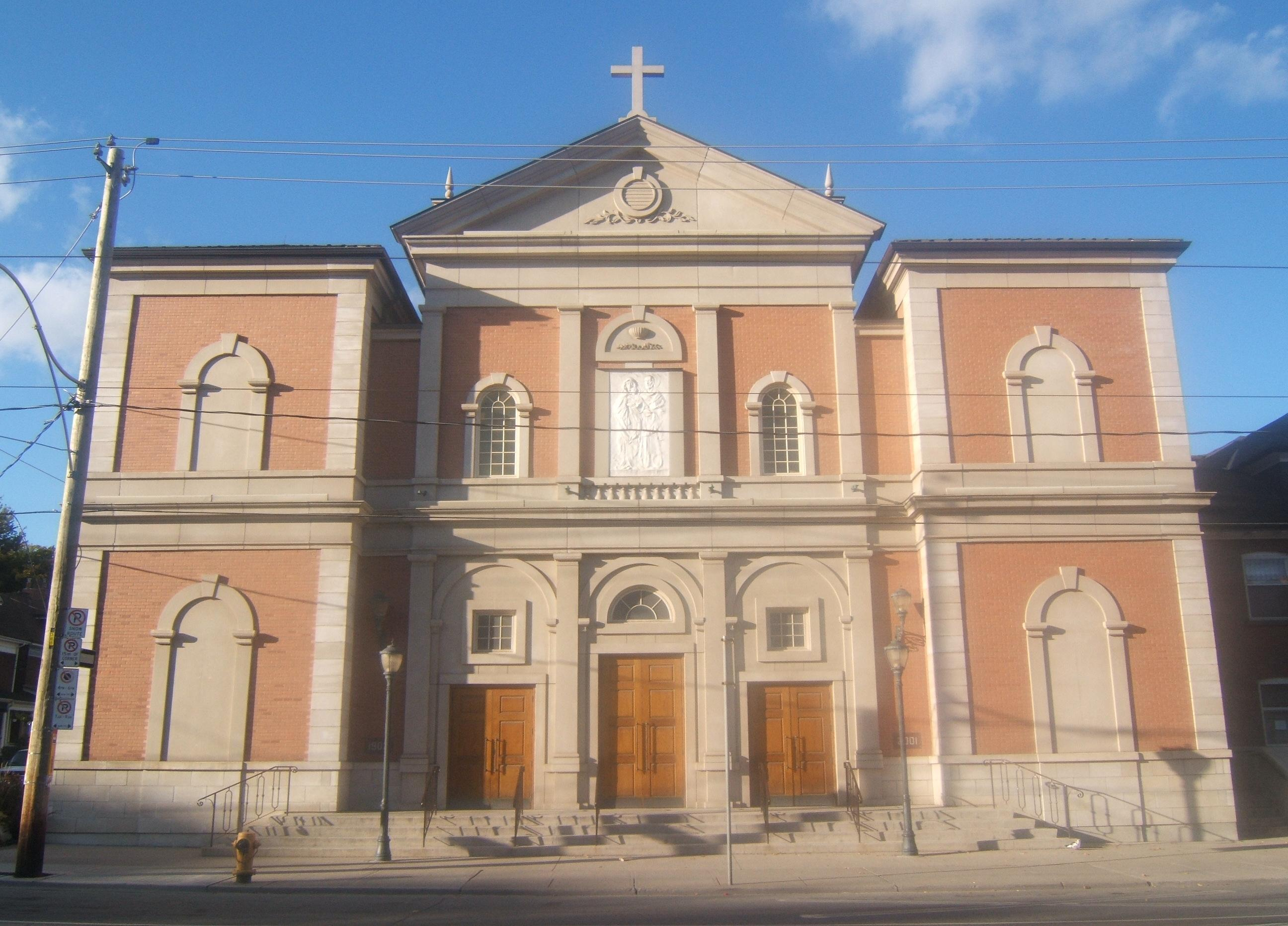 New Holy Family Roman Catholic Church on King Street West at Close Ave (north east corner), Parkdale